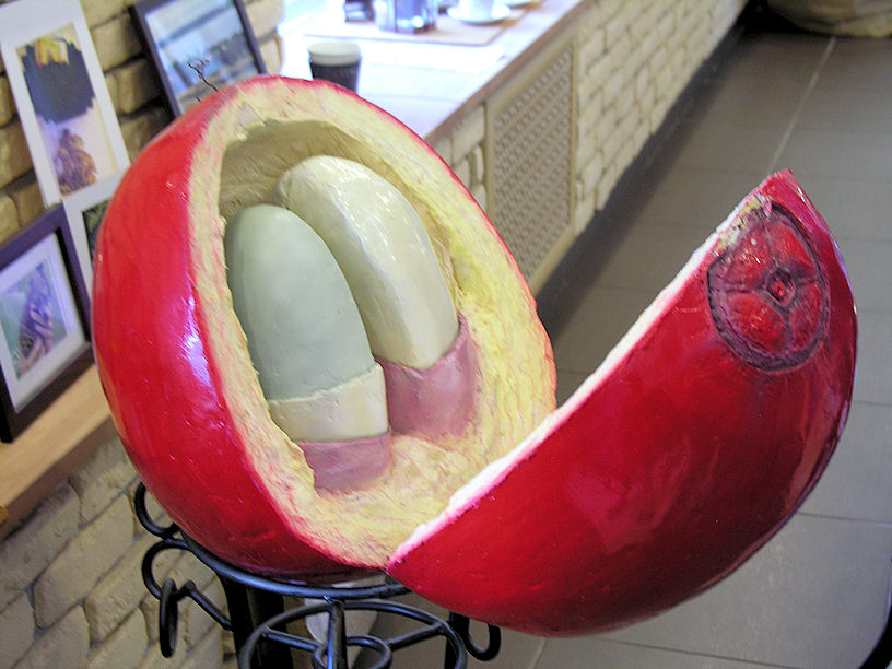 Saint Petersburg (Russia), Tsentralny District. Coffee museum